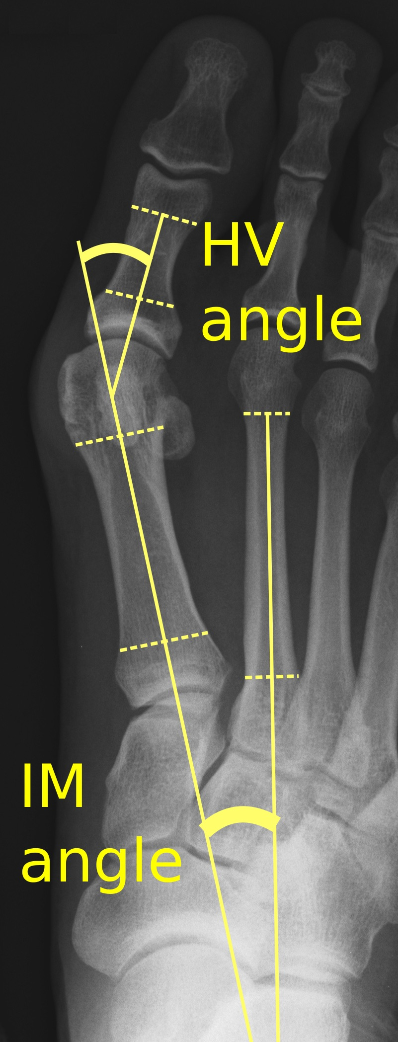 Measurements of the hallux valgus angle (HVA) and the intermetatarsal angle (IMA) on an radiograph, as part of bunion diagnosis.